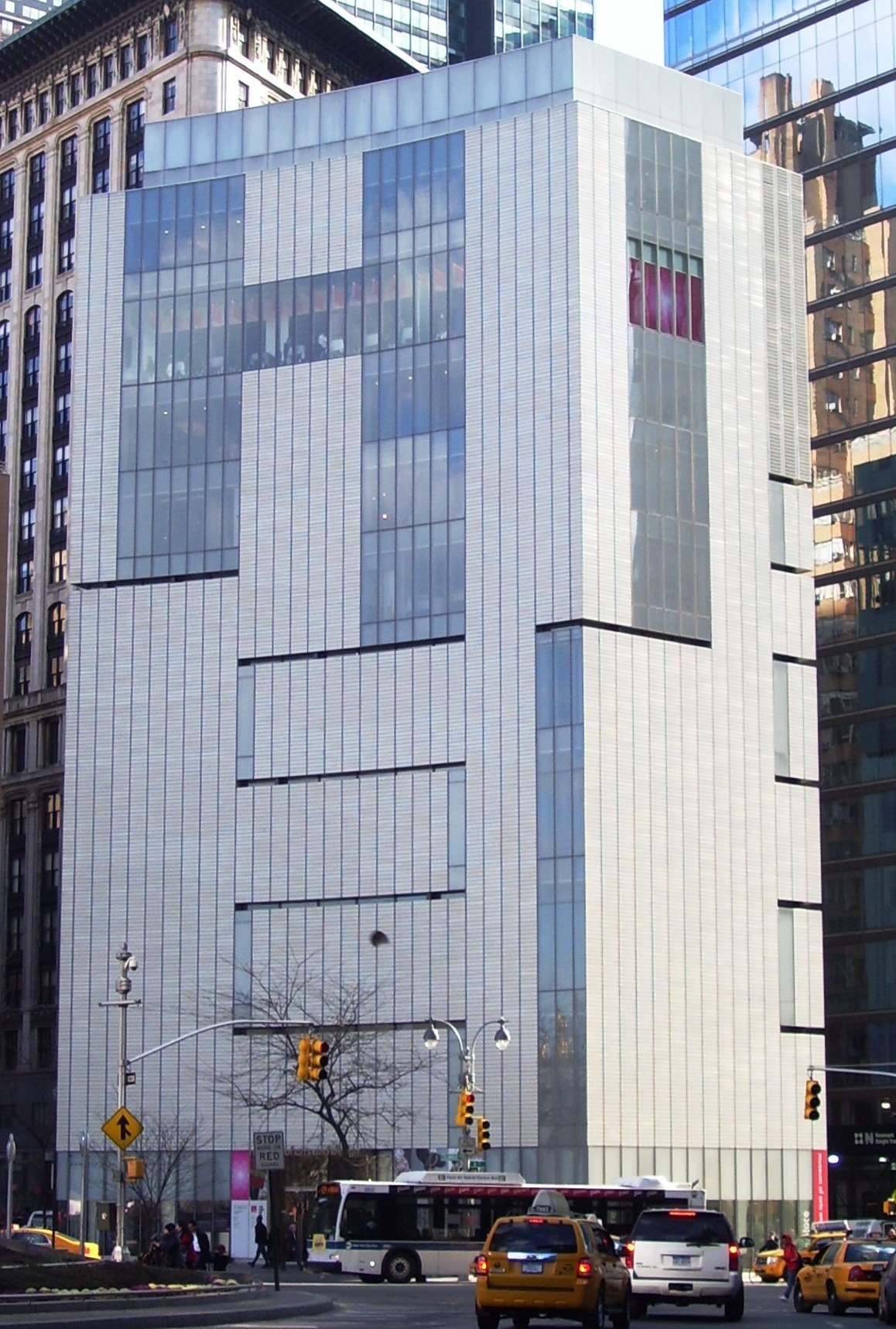 The Museum of Arts and Design at 2 Columbus Circle in Manhattan, New York City.